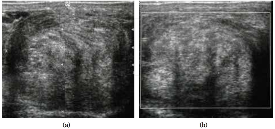 Scrotal ultrasonography of a leiomyoma.